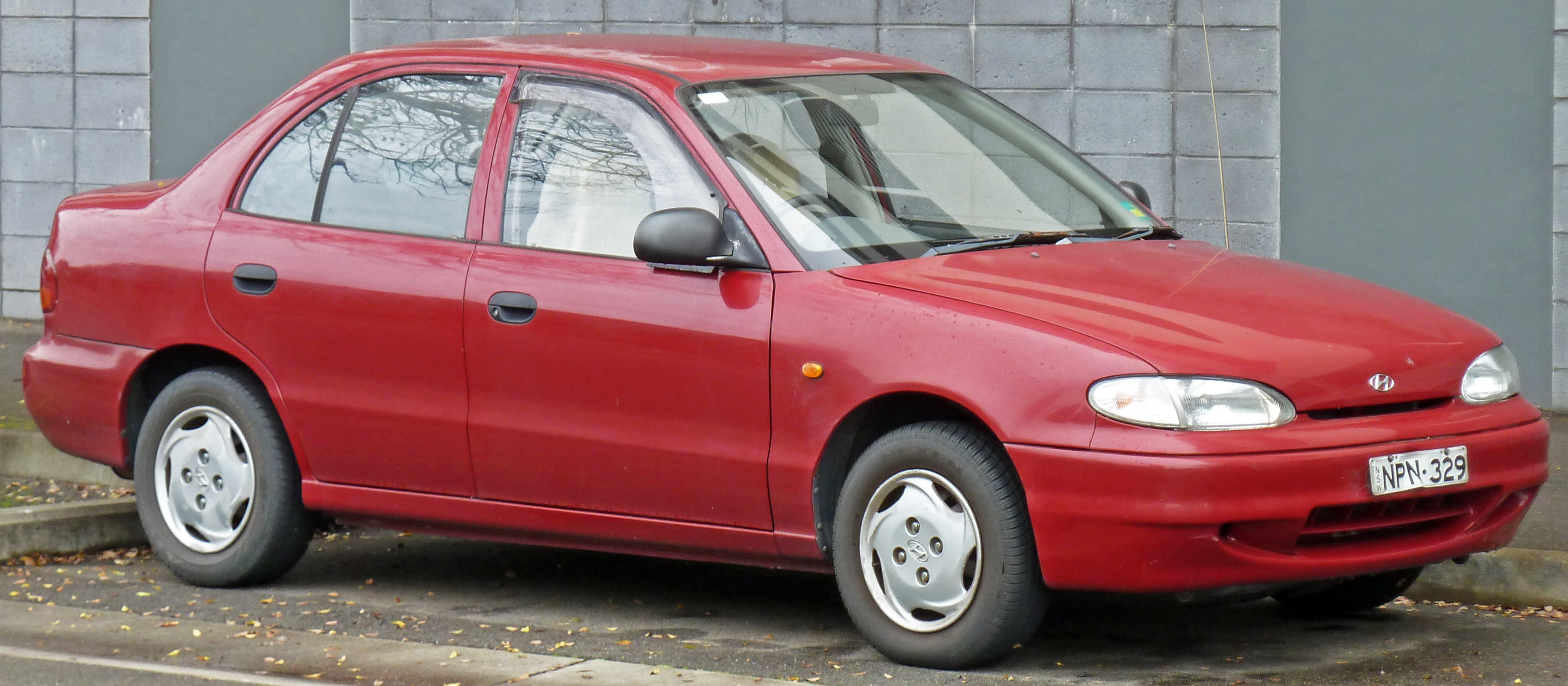 1994–1997 Hyundai Excel (X3) LX sedan. Photographed in Zetland, New South Wales, Australia.